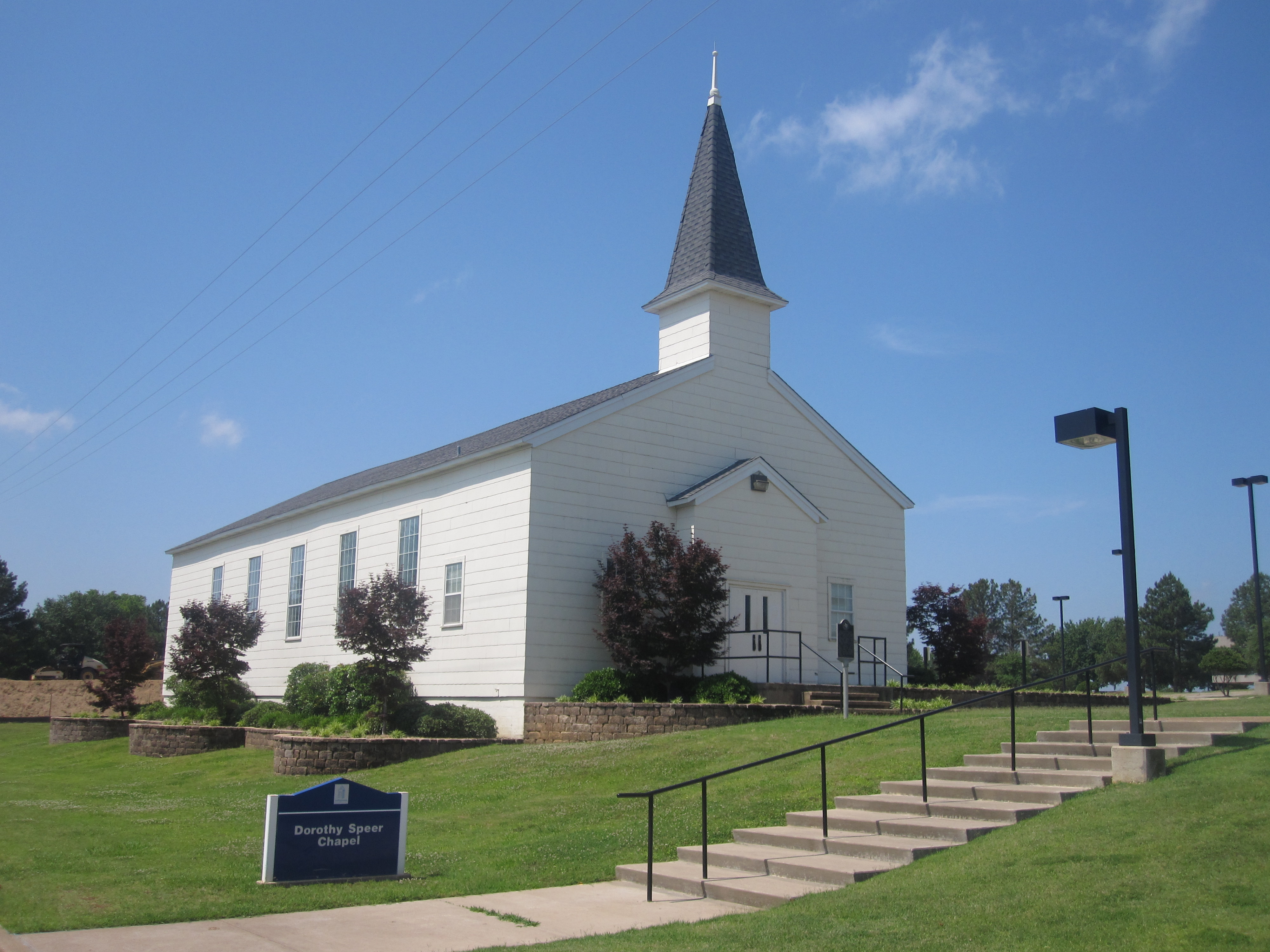 I took photo with Canon camera at LeTourneau University in Longview.